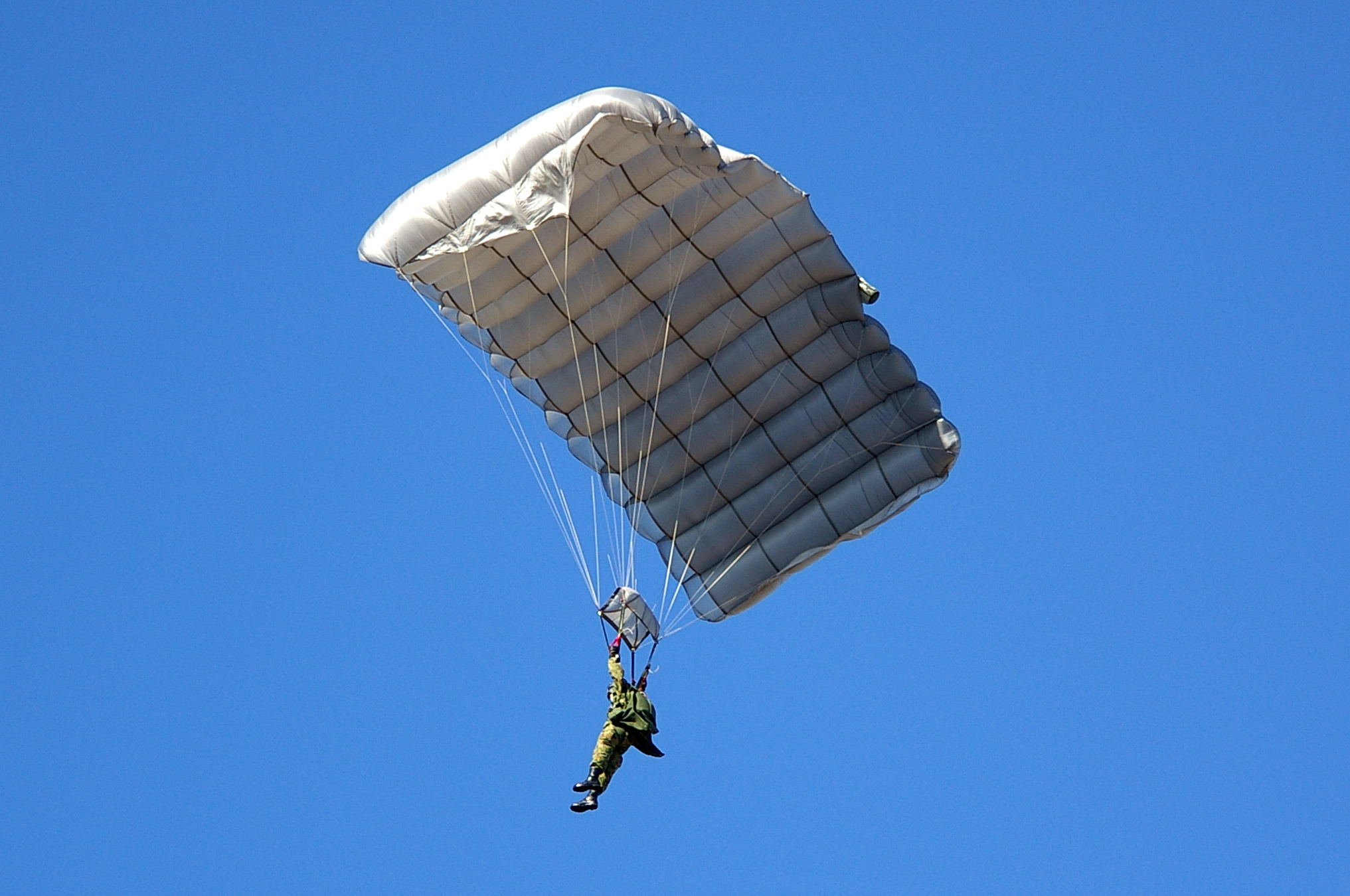 JGSDF parachute(MC-4).Taken by Los688,in Narashino,Japan,at 07-Jan-2007,JGSDF 1st Airborne Brigade 2007 first drop manuver.PD-self 陸上自衛隊、第1空挺団の降下。隊内呼称、自由降下傘。